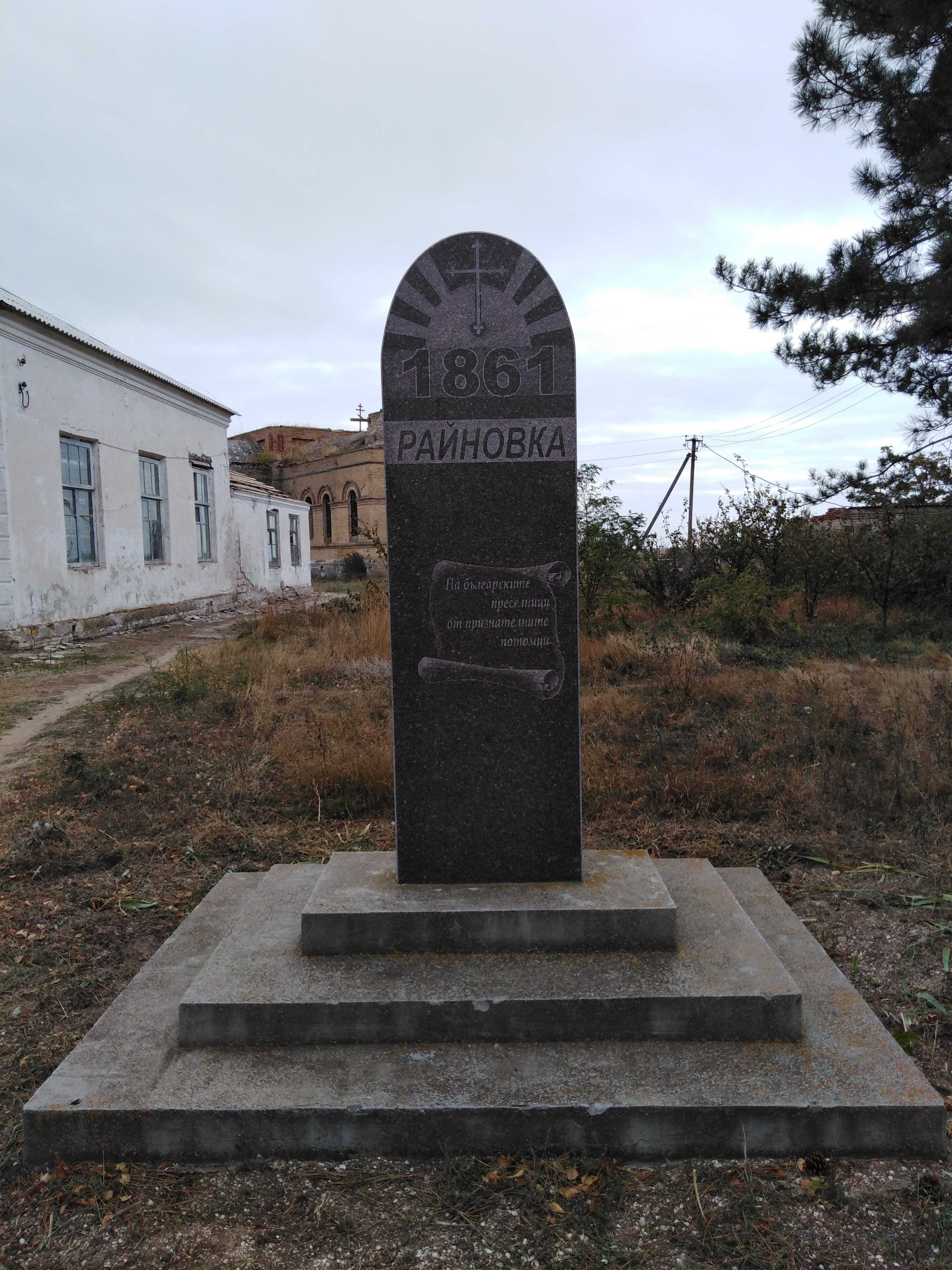 Ukraine. Zaporozhye region, Prymorsk Raion. Raynivka Monument